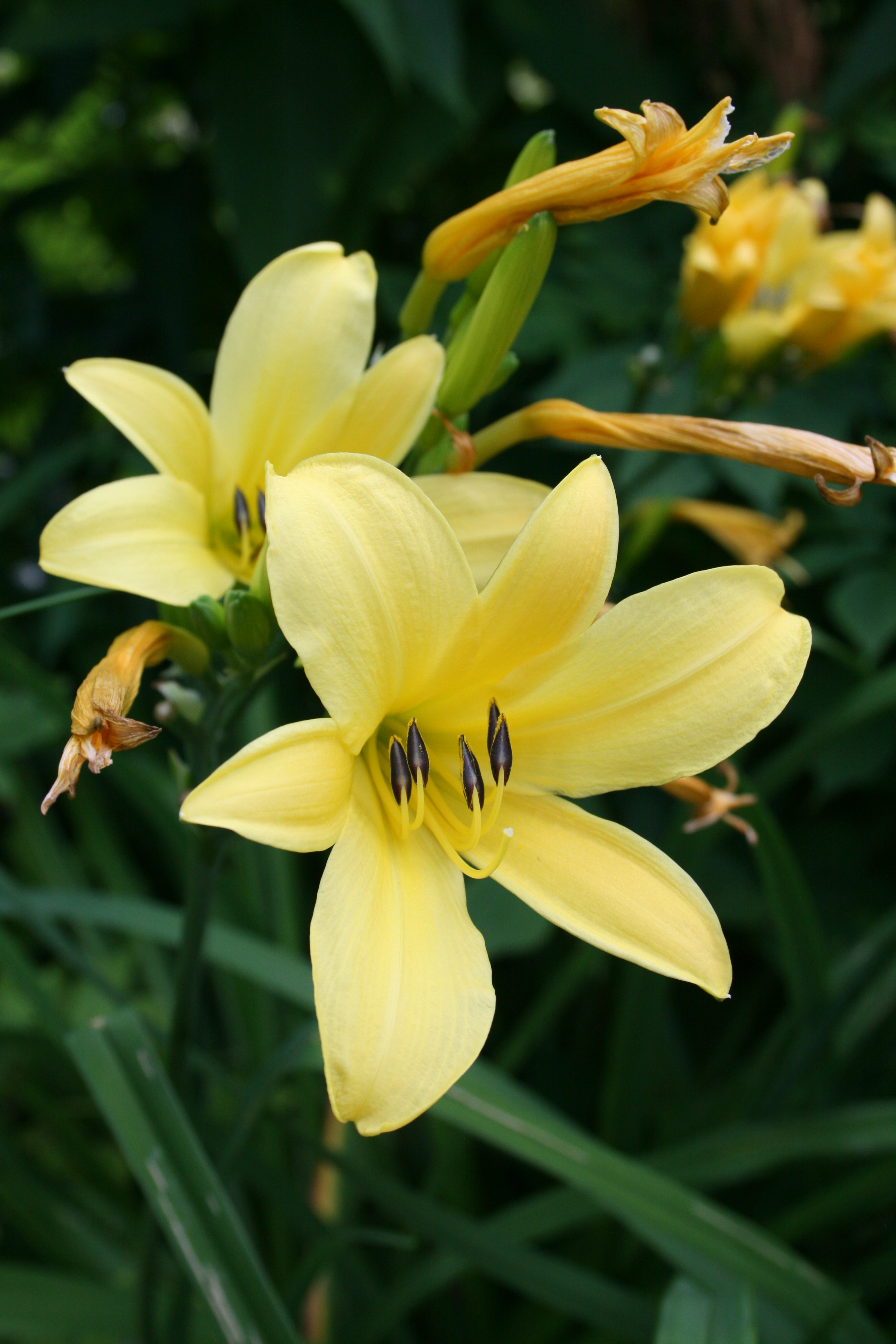 Hemerocallis thunbergii